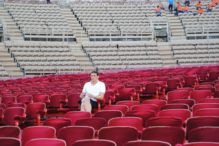 Stefano Trespidi directing at the Arena Di Verona.